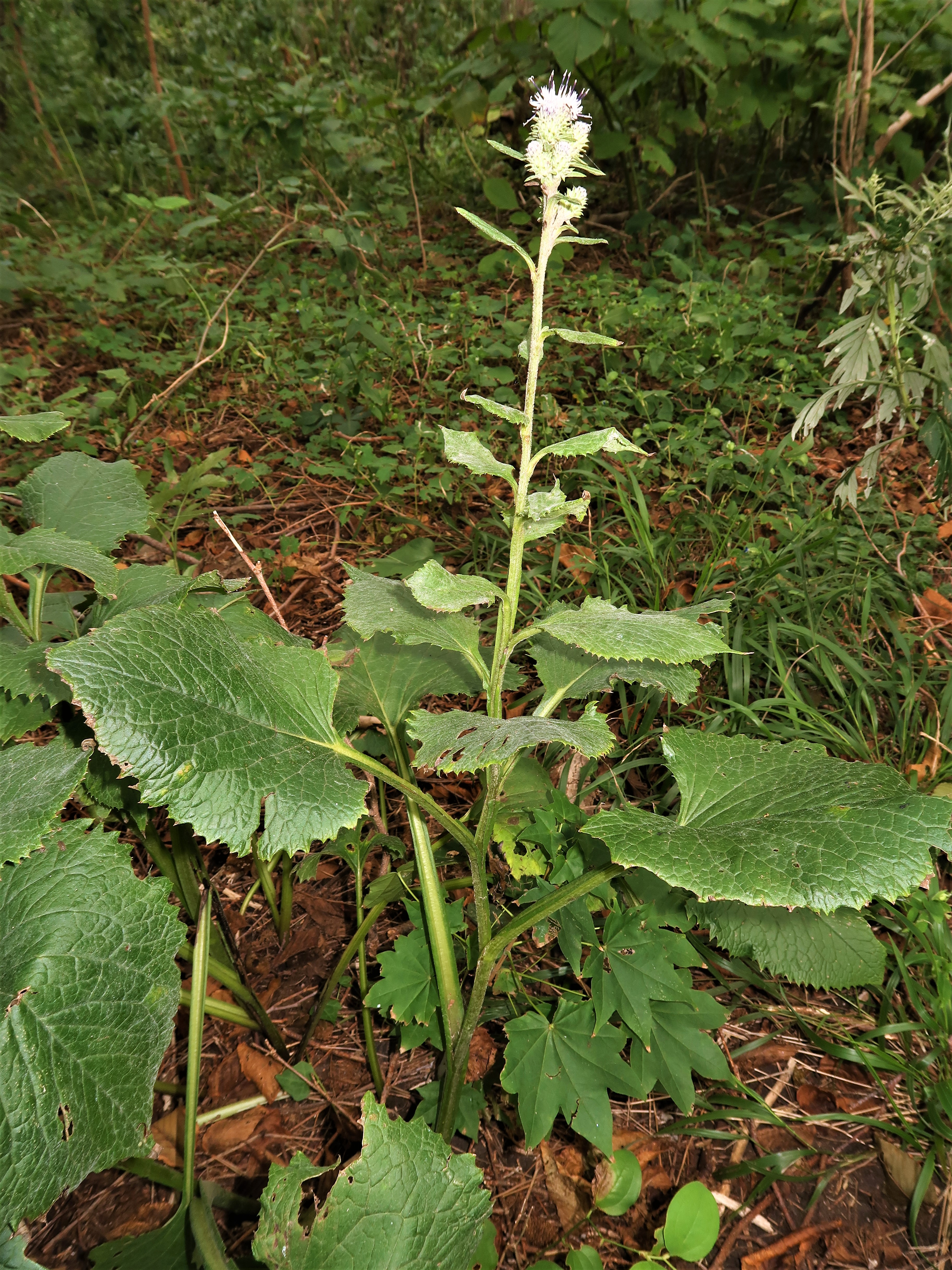 Saussurea andoana, Fukaura town, Aomori pref., Japan